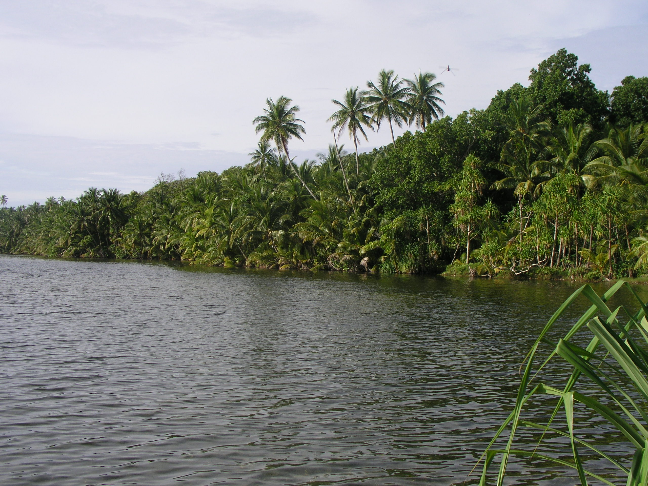 Interior lagoon on Swains Island, American Samoa